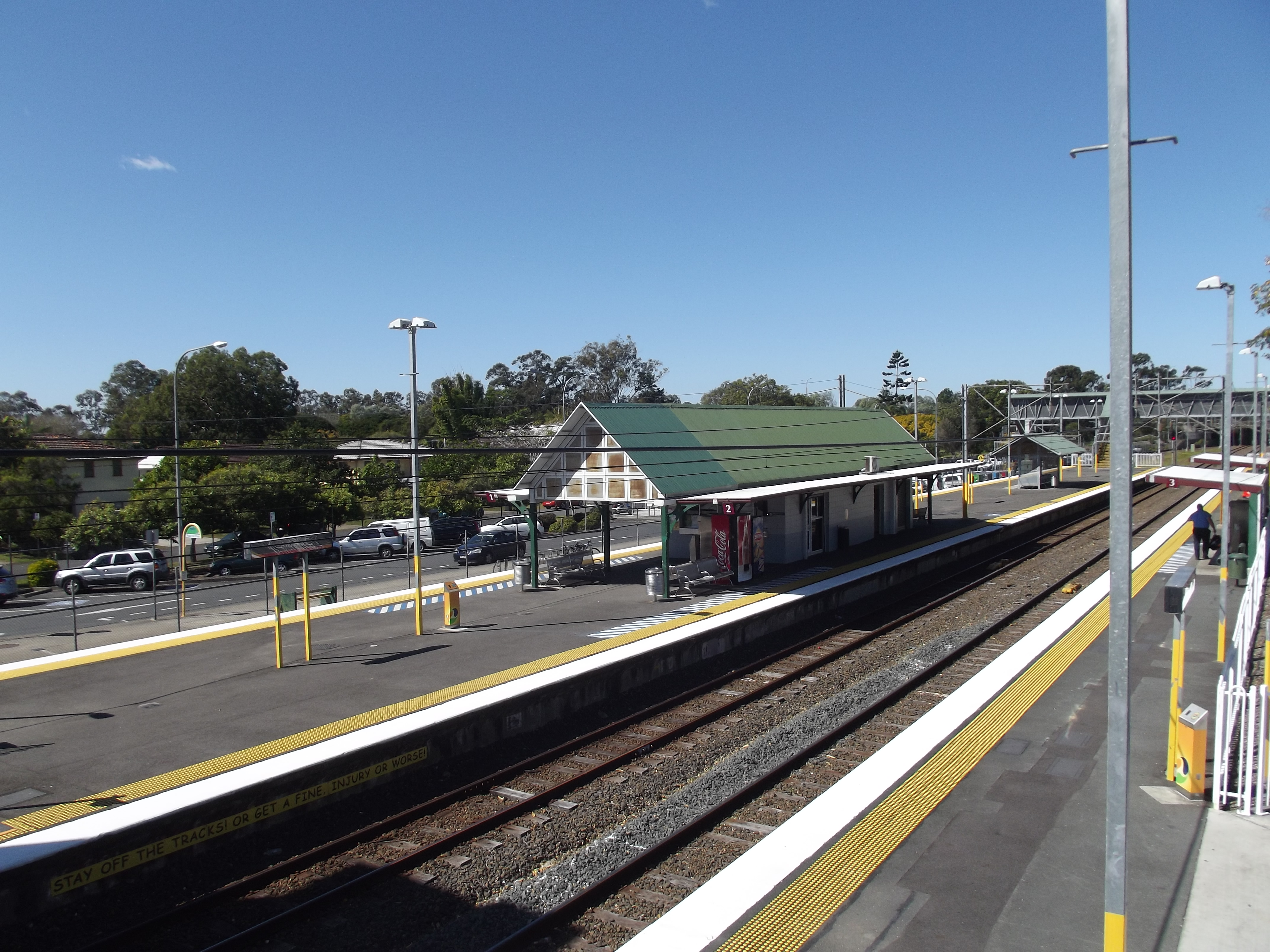 Bald Hills station, on the Caboolture line.